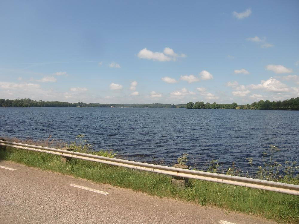 The dam overlooking the main basin